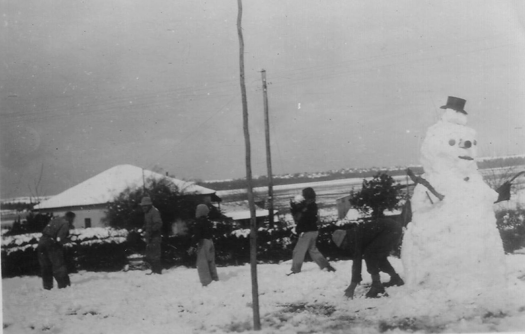 Snow in the village in January 1950, Geography of Israel